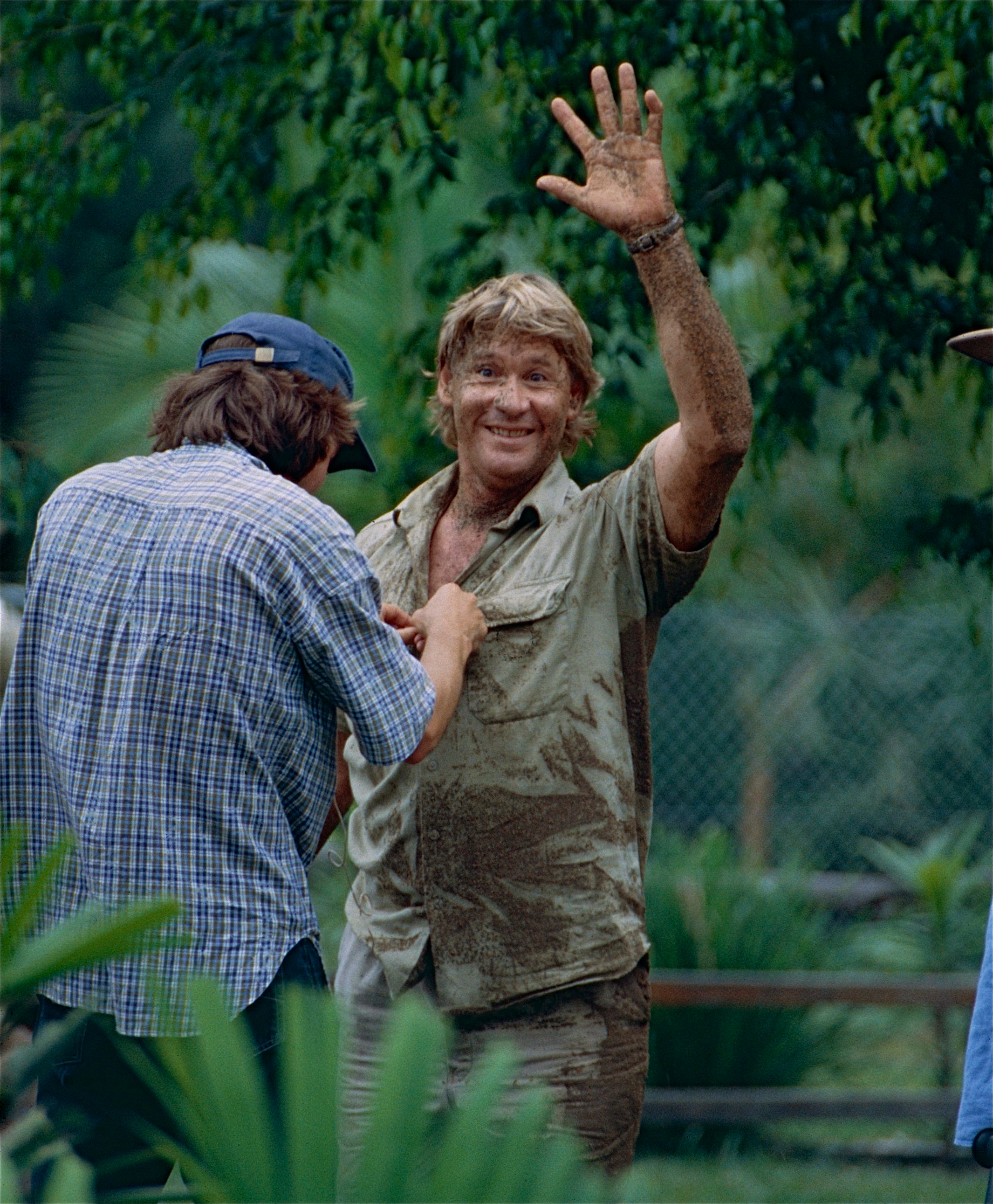 Australia Zoo, Beerwah, South Queensland, AUSTRALIA Scanned Slide from Dec 2000